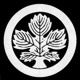 Crest of Abe at Okabe